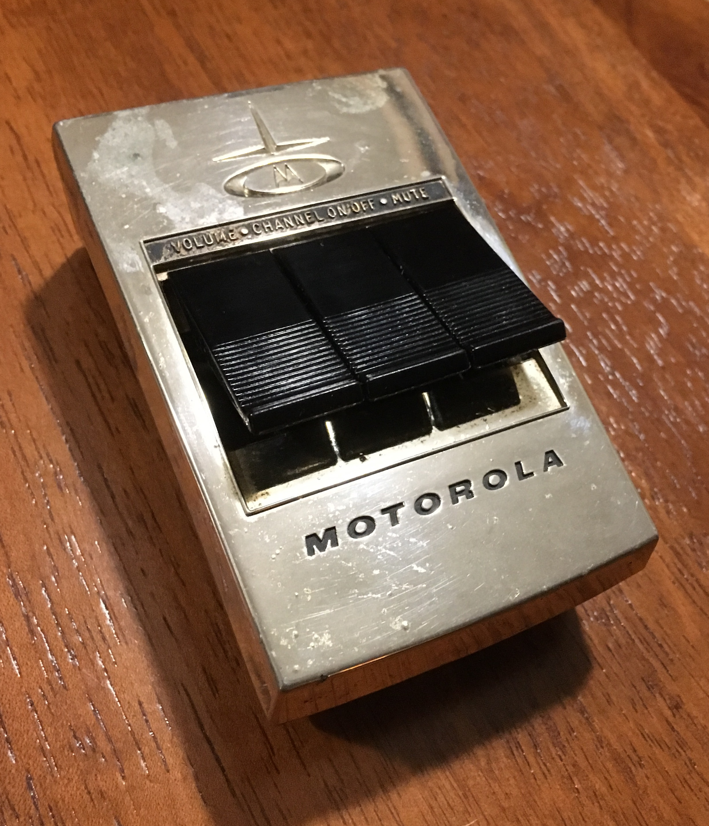 Circa 1950's Television Remote Control made by Motorola